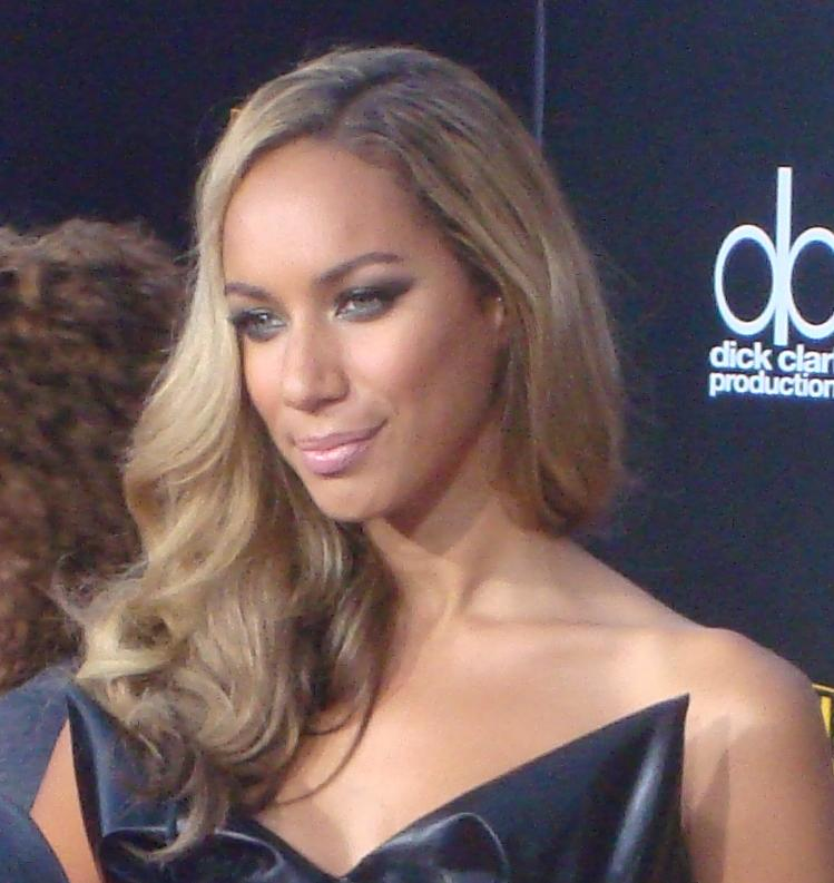 Leona Lewis at the 2009 American Music Awards